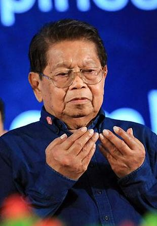 President Rodrigo Duterte joins Bangsamoro Transition Commission (BTC) chairman Ghadzali Jaafar in prayer during the Bangsamoro Assembly held at the Old Provincial Capitol in Sultan Kudarat, Maguindanao on Monday, November 27, 2017.